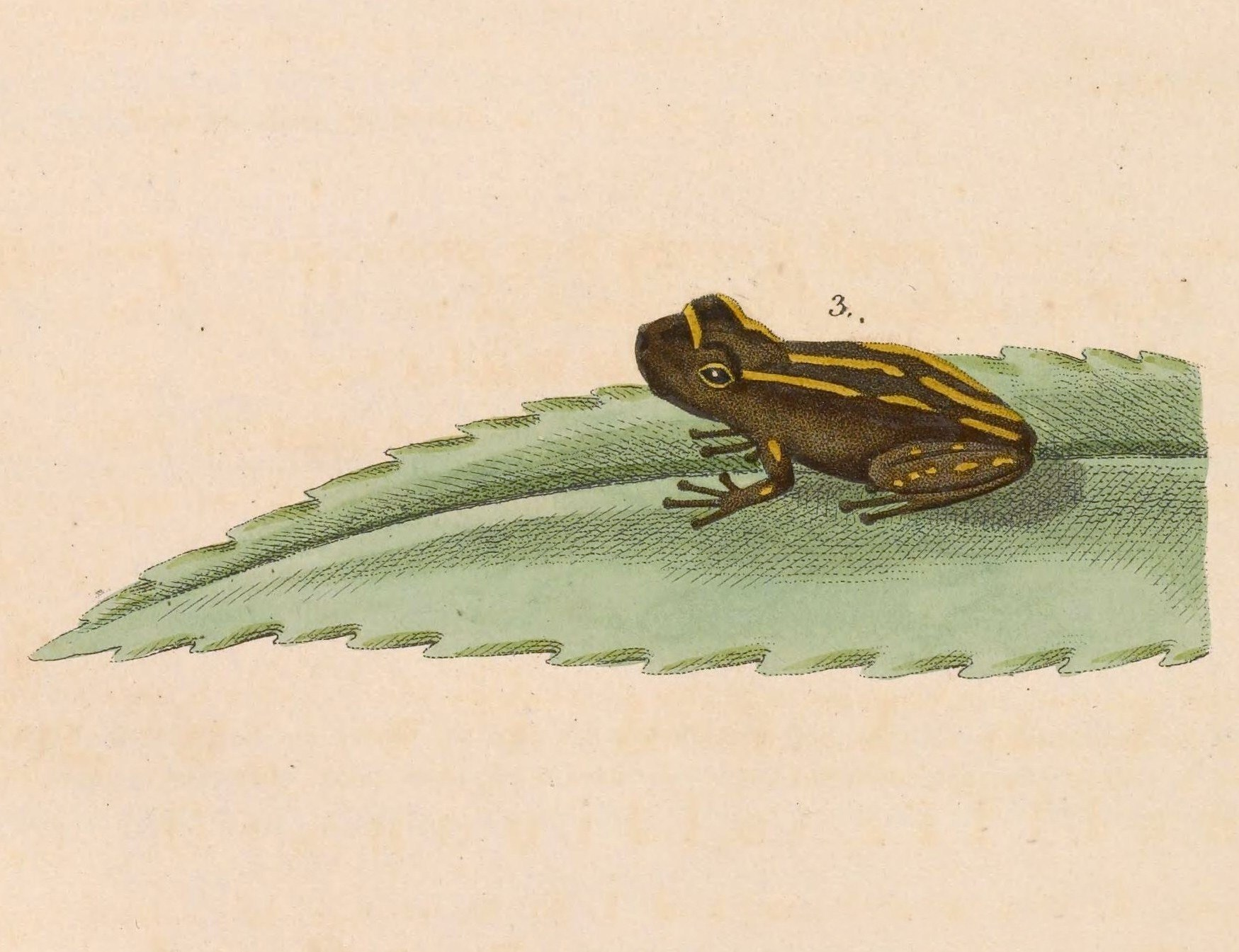 Hyla aurata = Scinax auratus